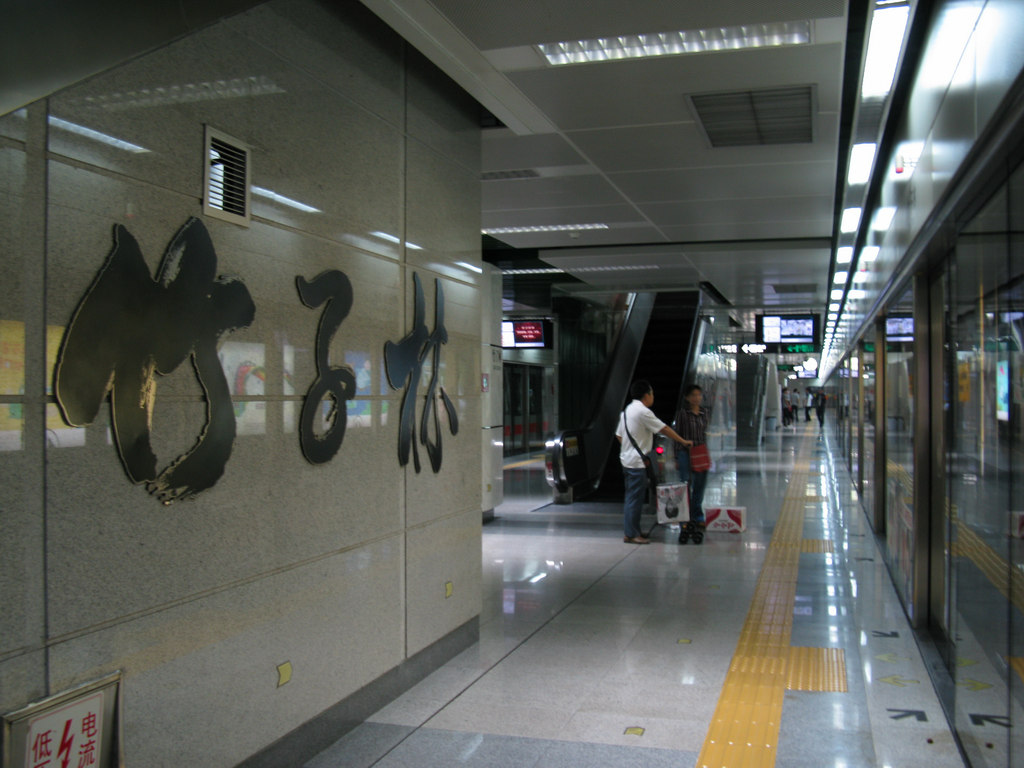 Line 1 Platform of Zhu Zi Lin Station, Shenzhen Metro, view towards Qiao Cheng Dong Station